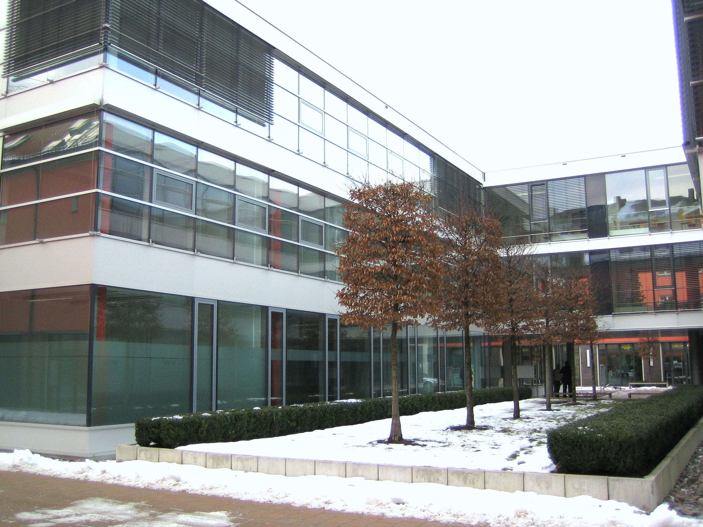 schoolbuilding in Regensburg